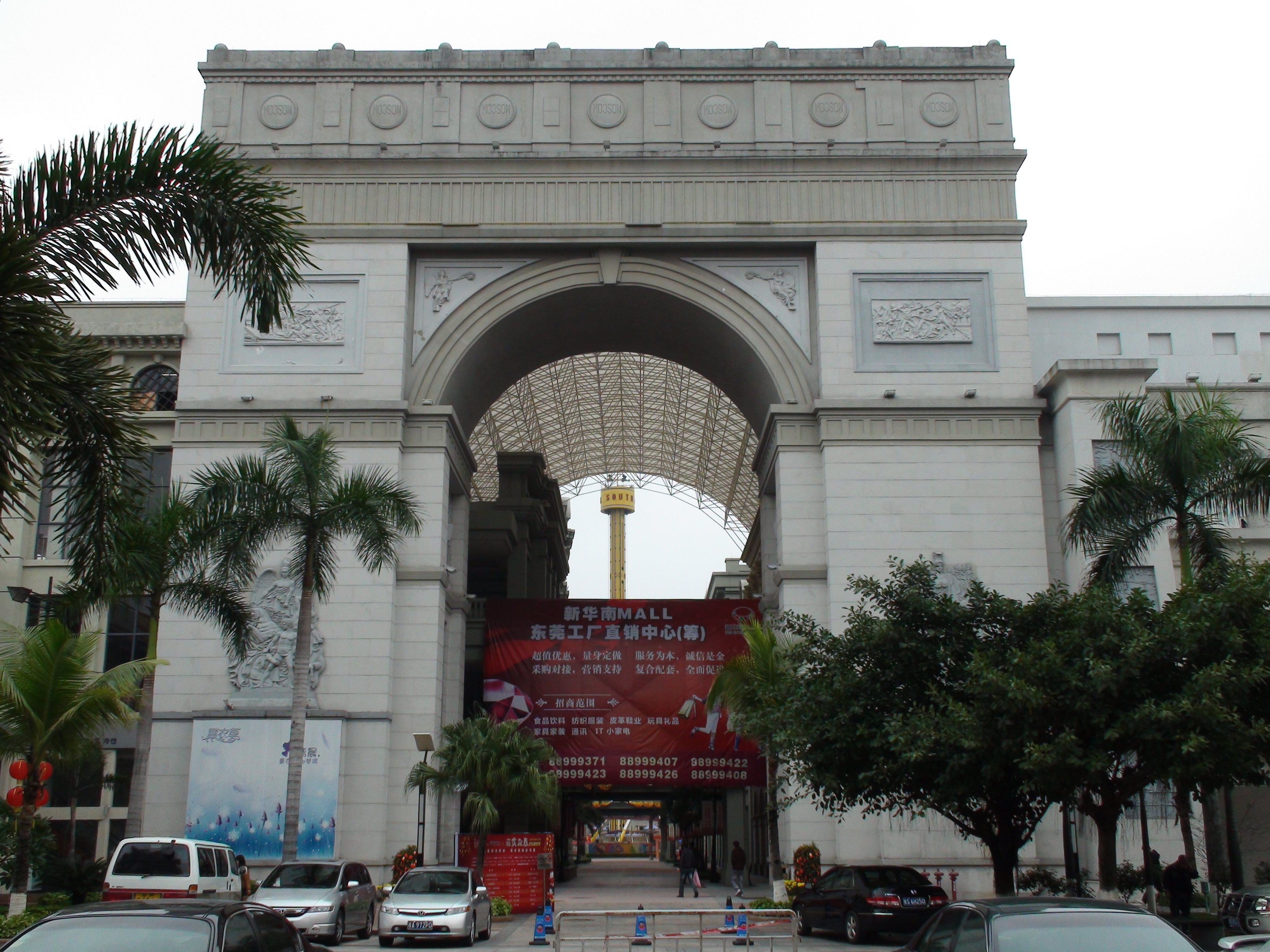 New South China Mall, Dongguan, China, Arc de Triomphe replica